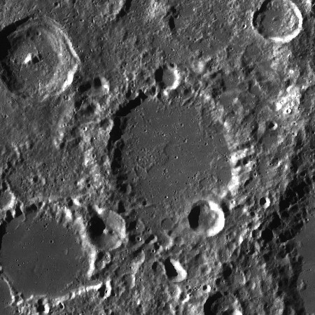 LROC . Oresme at center, satellite V upper left, Chretien C lower left, east rim of Von Kármán at right margin.